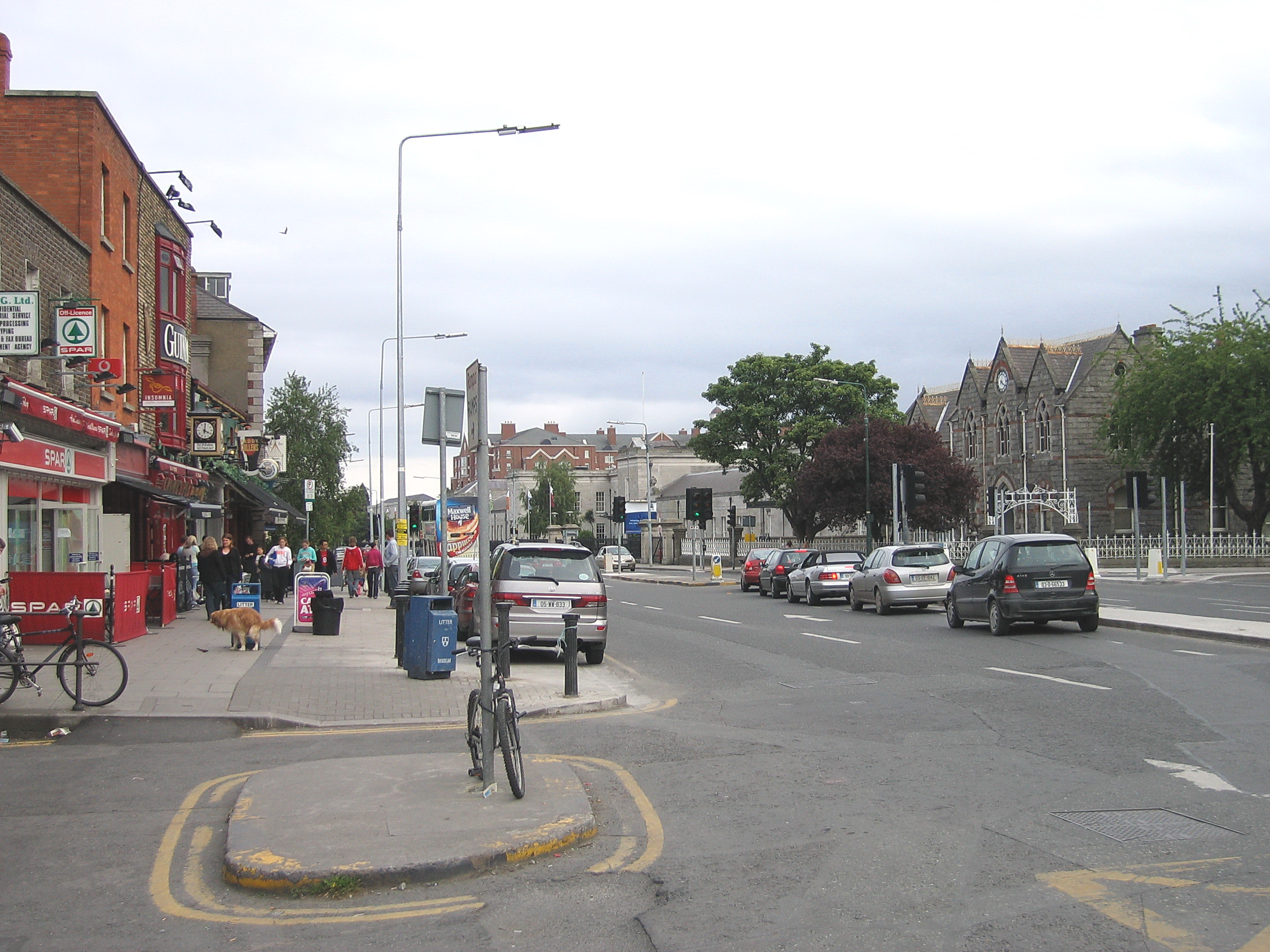 Ballsbridge Village with the RDS (Royal Dublin Society) in background, right.